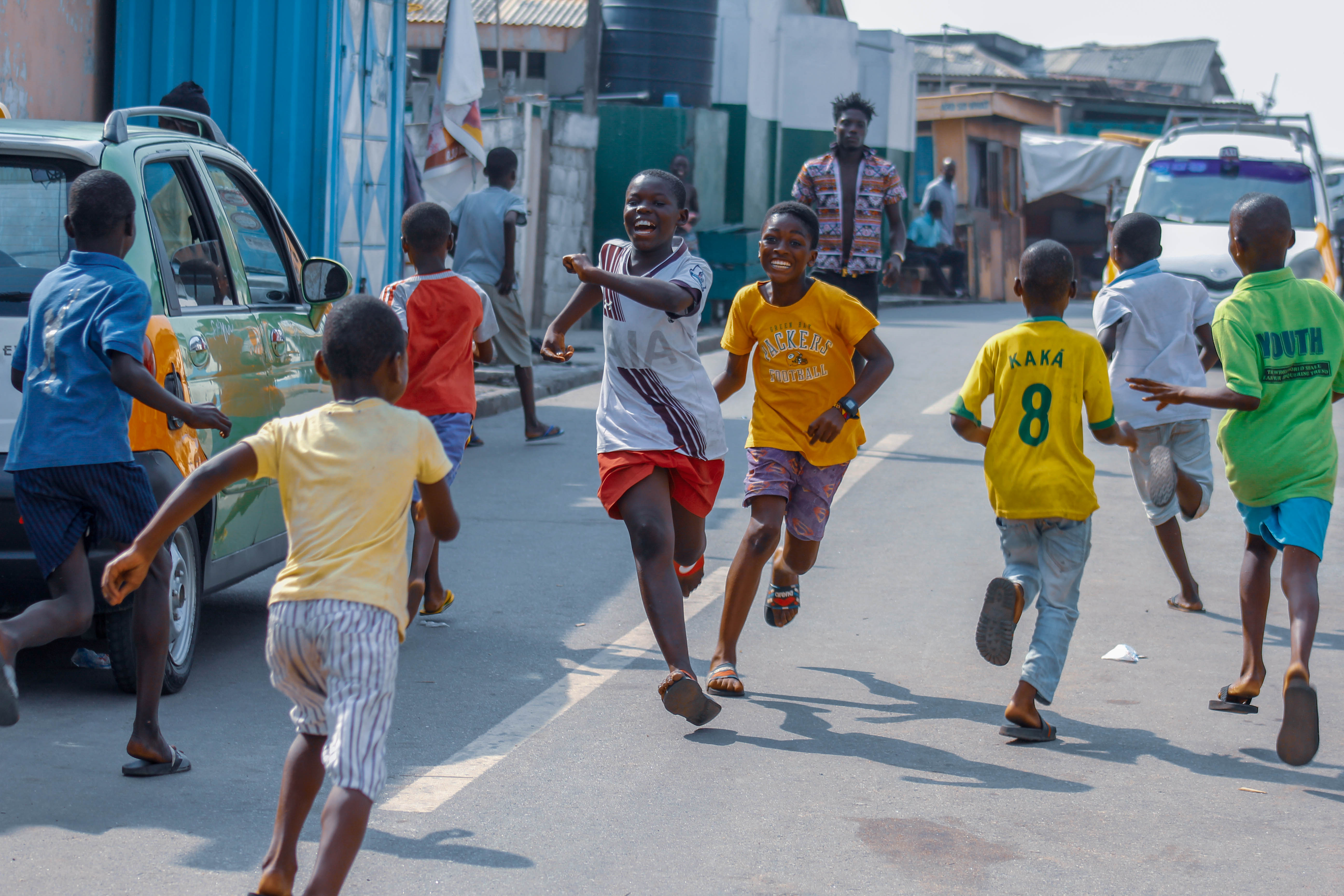 A Ghanaian game similar to hide-and-seek The Pilolo game is played by two or more children. The higher the number, the increase in excitement and zeal to win. An object like a stick is mostly used and the number of sticks to use is dependent on the number of children. A non-participant hides the sticks while the participants have either closed their eyes or not in the same location. The non-participant then shout out "pi-lo-lo", the participants then run from their hideout to search for the item. A finish point is indicated where they must send the stick to be a winner. One needs to be smart, observant and skilful to detect where the item has been hidden. The first person that sees it secretly runs to the finish point before alerting the others after a hard time trying. It is then recorded as they reach the finish point. There is an excitement after being the winner. It can be played multiple times